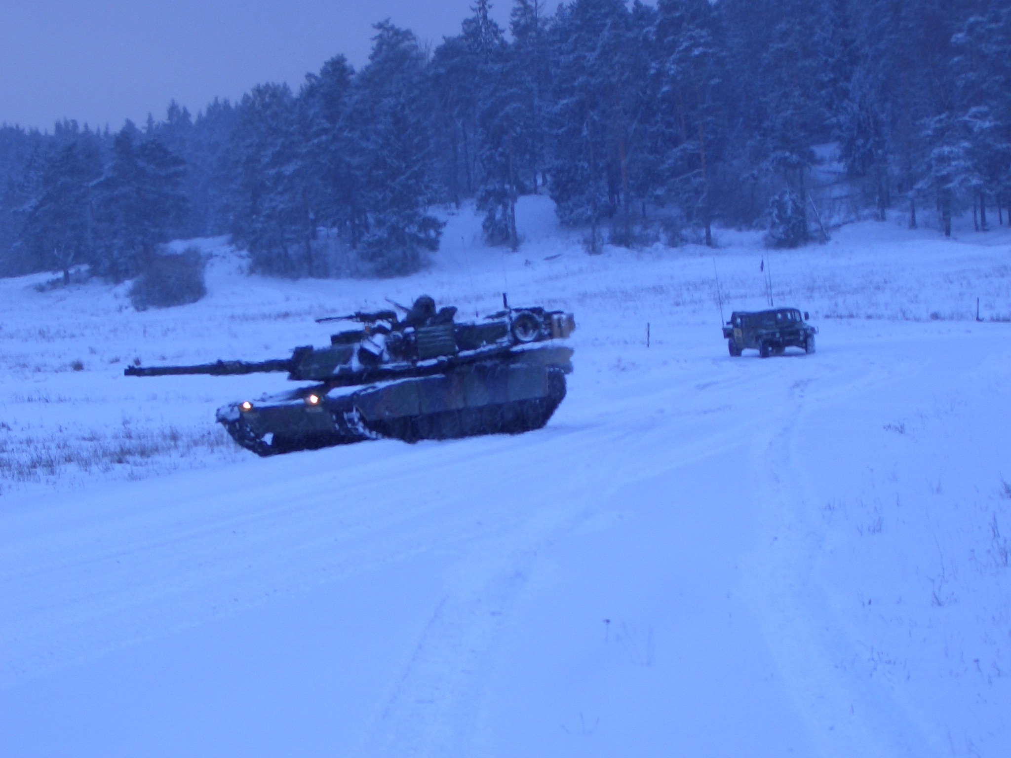 An M1A1 Abrams from Company B, 1st Battalion, 77th Armor Regiment slides off the road while maneuvering on snow covered terrain in the Hohenfels Training Area, Germany.